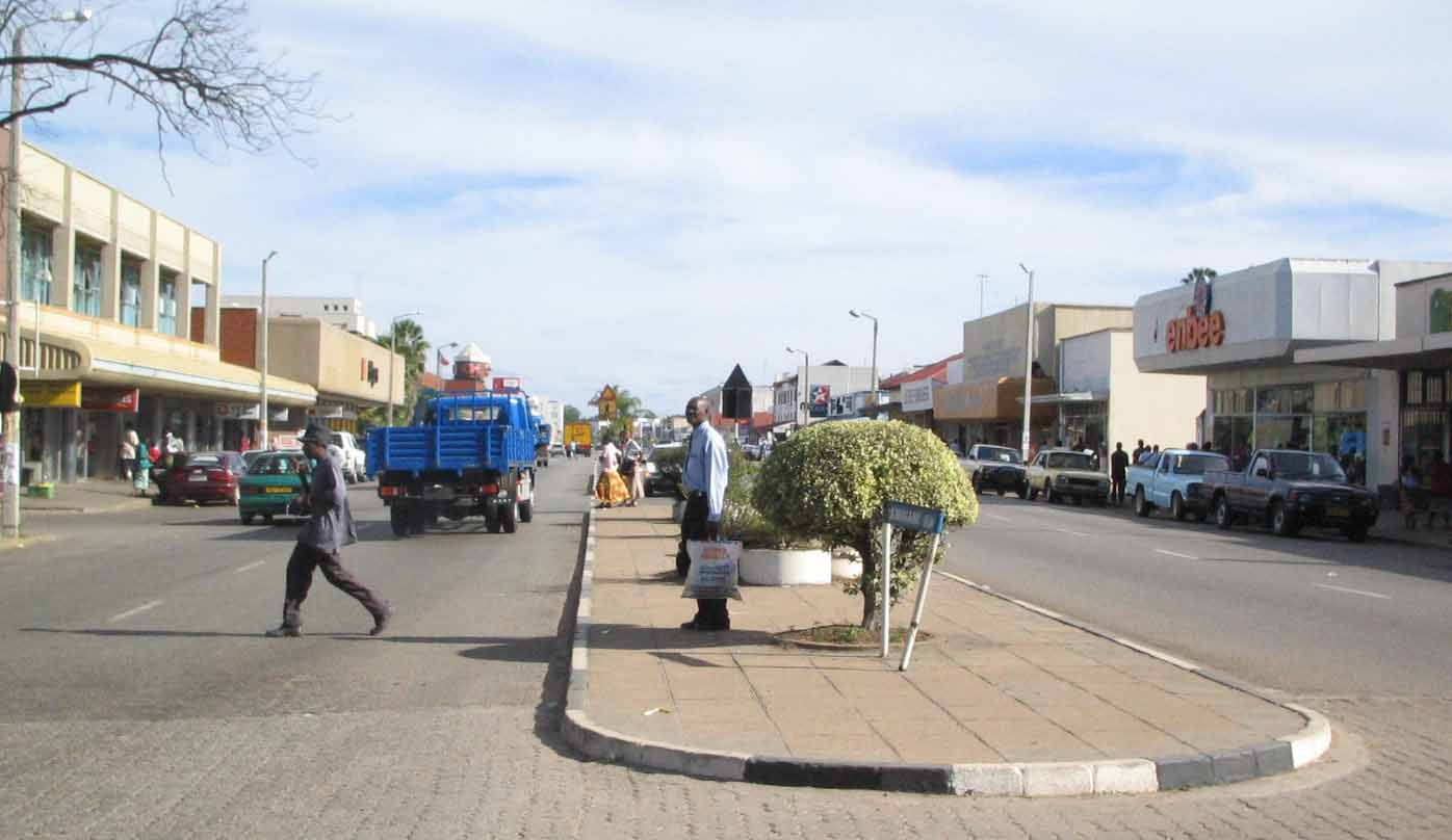 Kwekwe, main street.